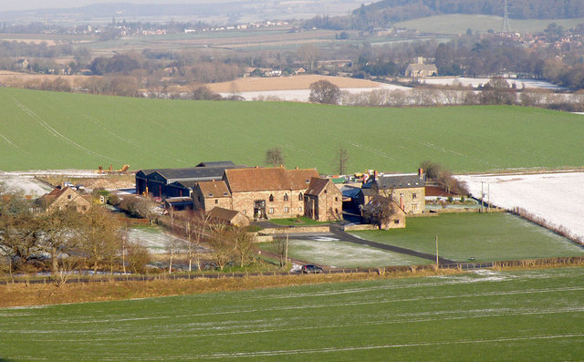 Flanesford Priory As seen from just below the Goodrich to Welsh Bicknor road. In the distance can be seen Walford Church.